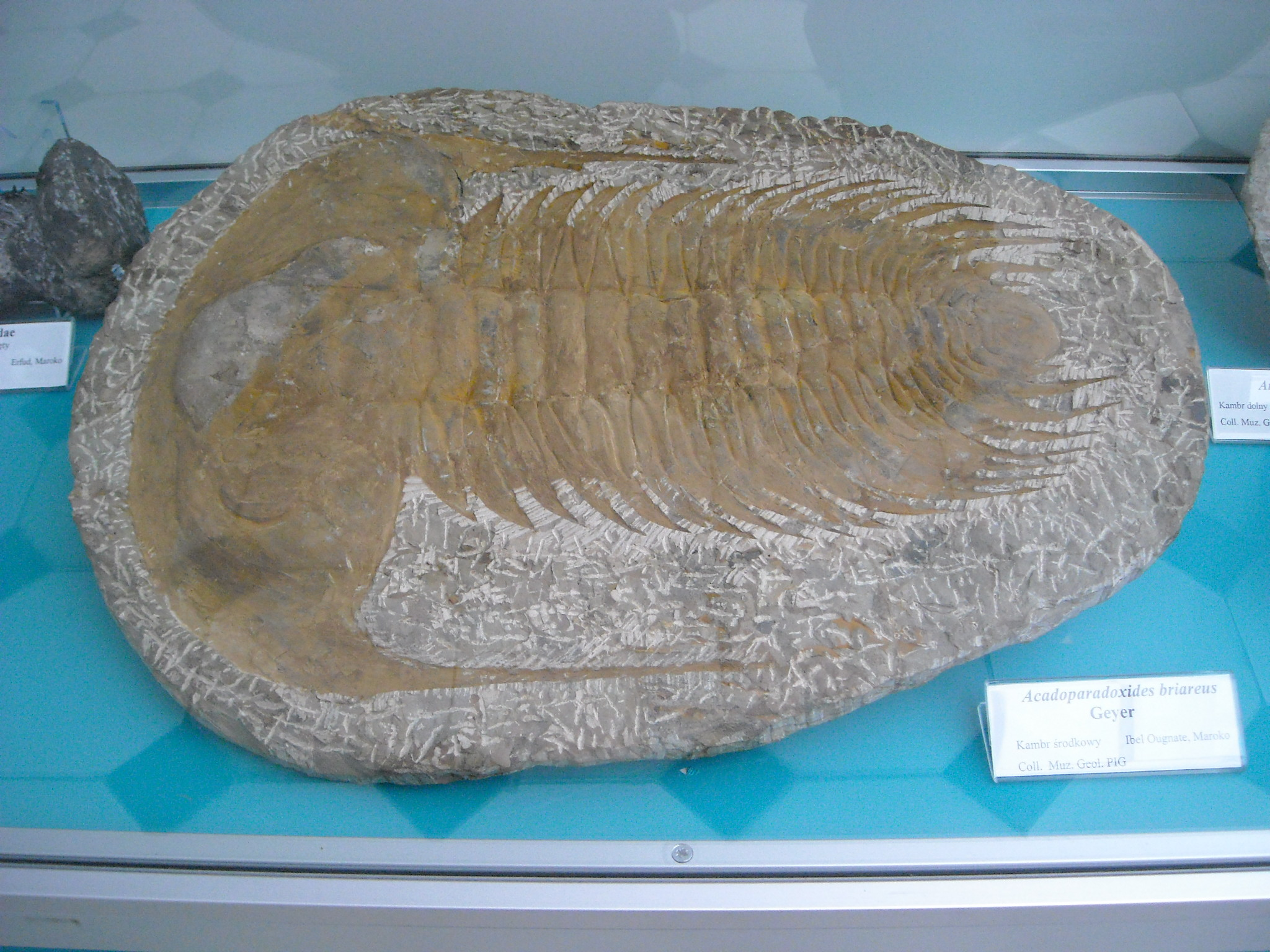 Acadoparadoxides briareus - a paradoxidid trilobite. This specimen comes from the Middle Cambrian of Morocco.